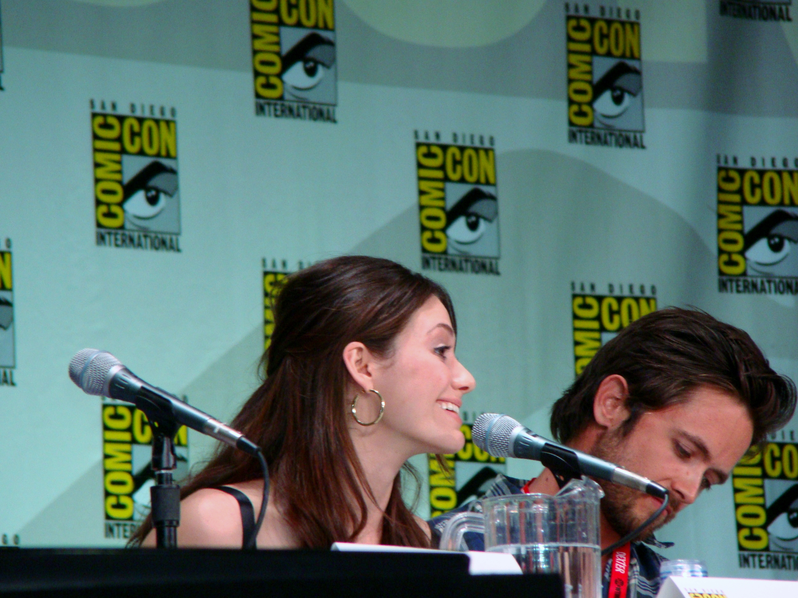 Emmy Rossum and Justin Chatwin, promoting Shameless at 2011 Comic-Con